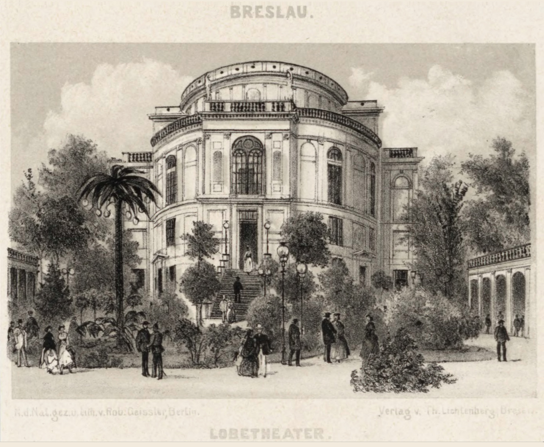 Lobetheater Breslau